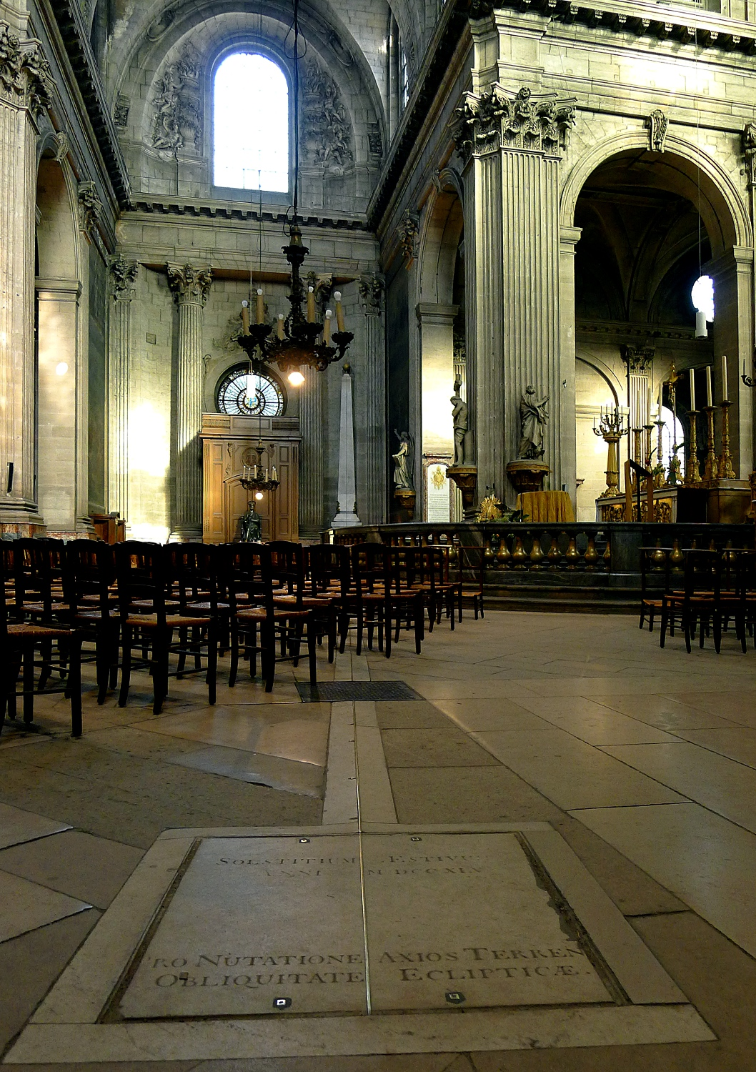 Saint-Sulpice church - Paris